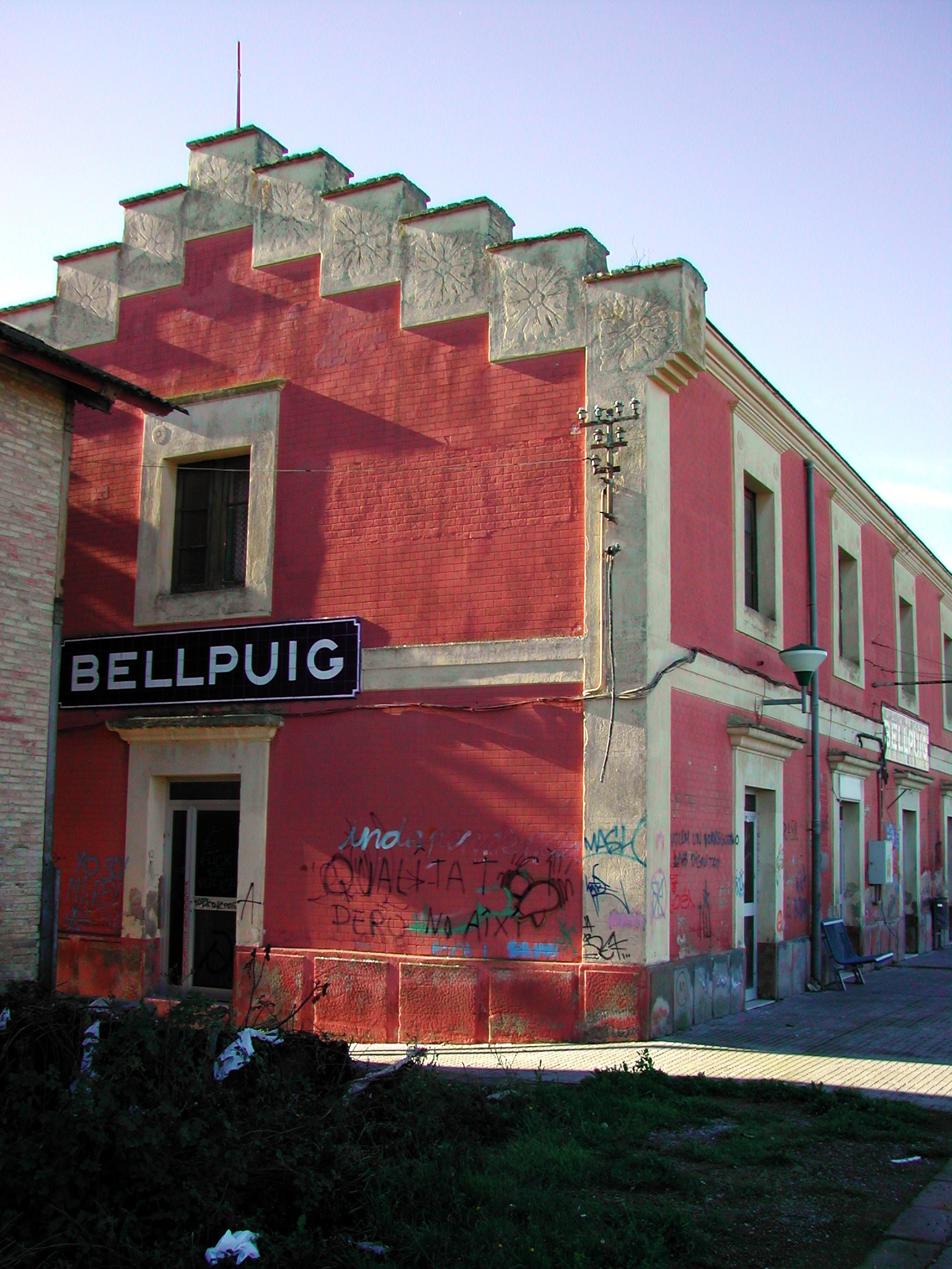 Bellpuig station building seen from the platform.